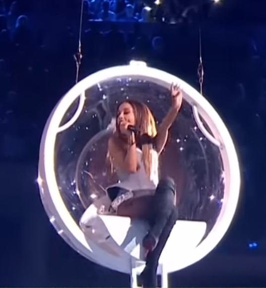 Ariana Grande perfoming at 2014 MTV EMA